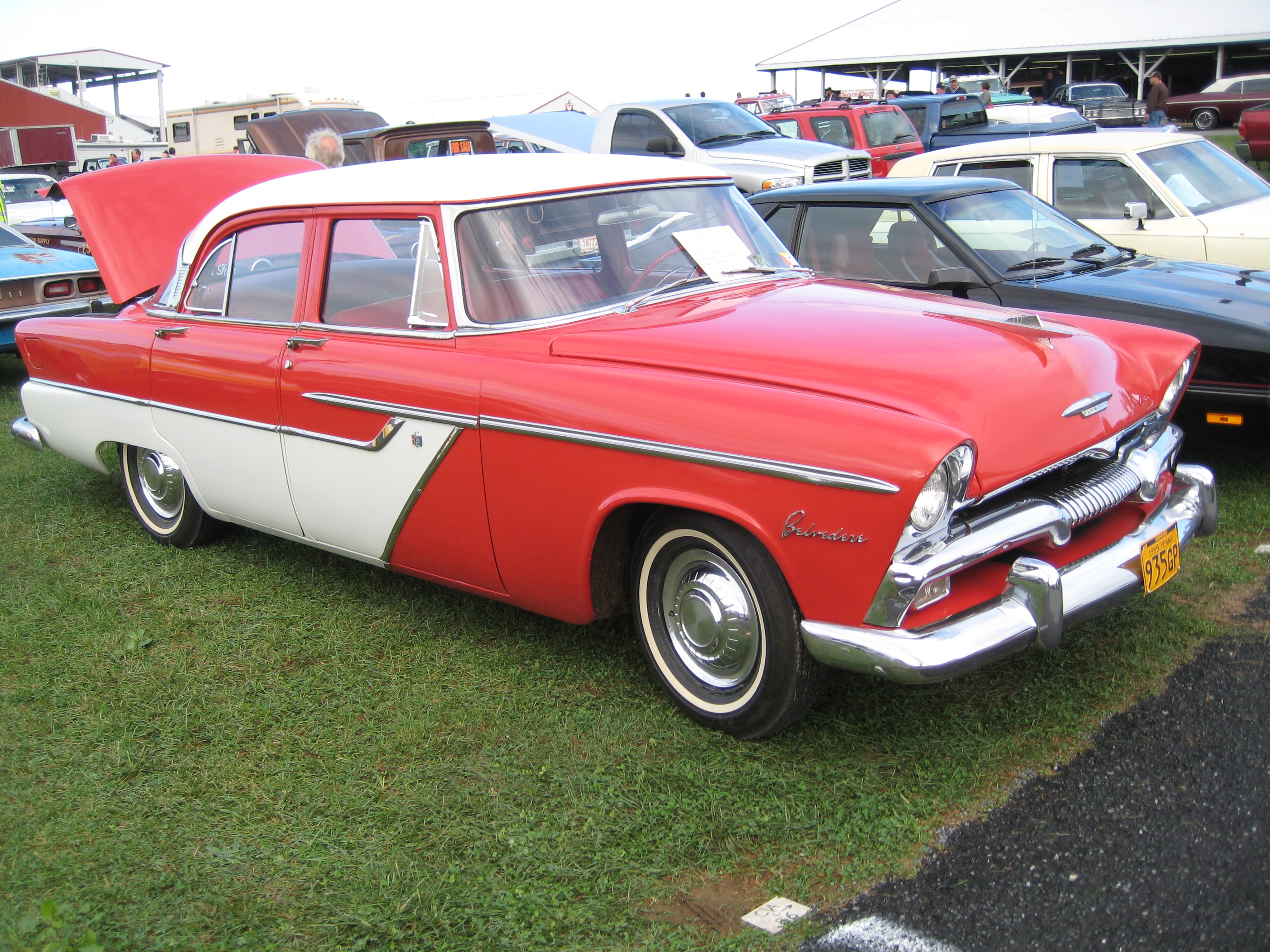 I have not yet solved my mystery. Was the car Belvedere named for the town where the plant is or was the town named for the car?